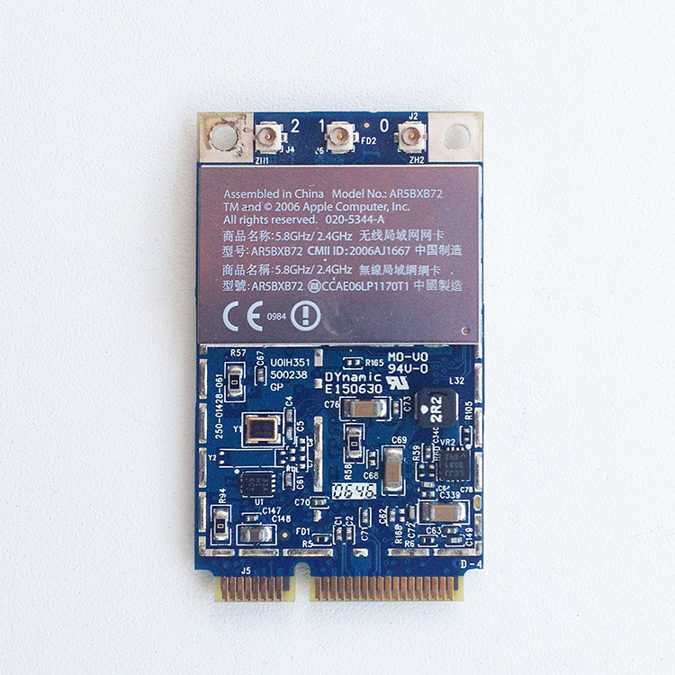 Apple AirPort Extreme Card 802.11n Model No.: AR5BXB72. Works with: MacBook, MacBook Pro, Mac Pro*, iMac with Intel Core 2 Duo (except the 17-inch, 1.83GHz iMac) and other brand laptops with Mini PCI Express slot. *Mac Pro 2006 – 2009 (MacPro1,1 / 2,1 / 3,1 / 4,1), OSX 10.5.6 or later.